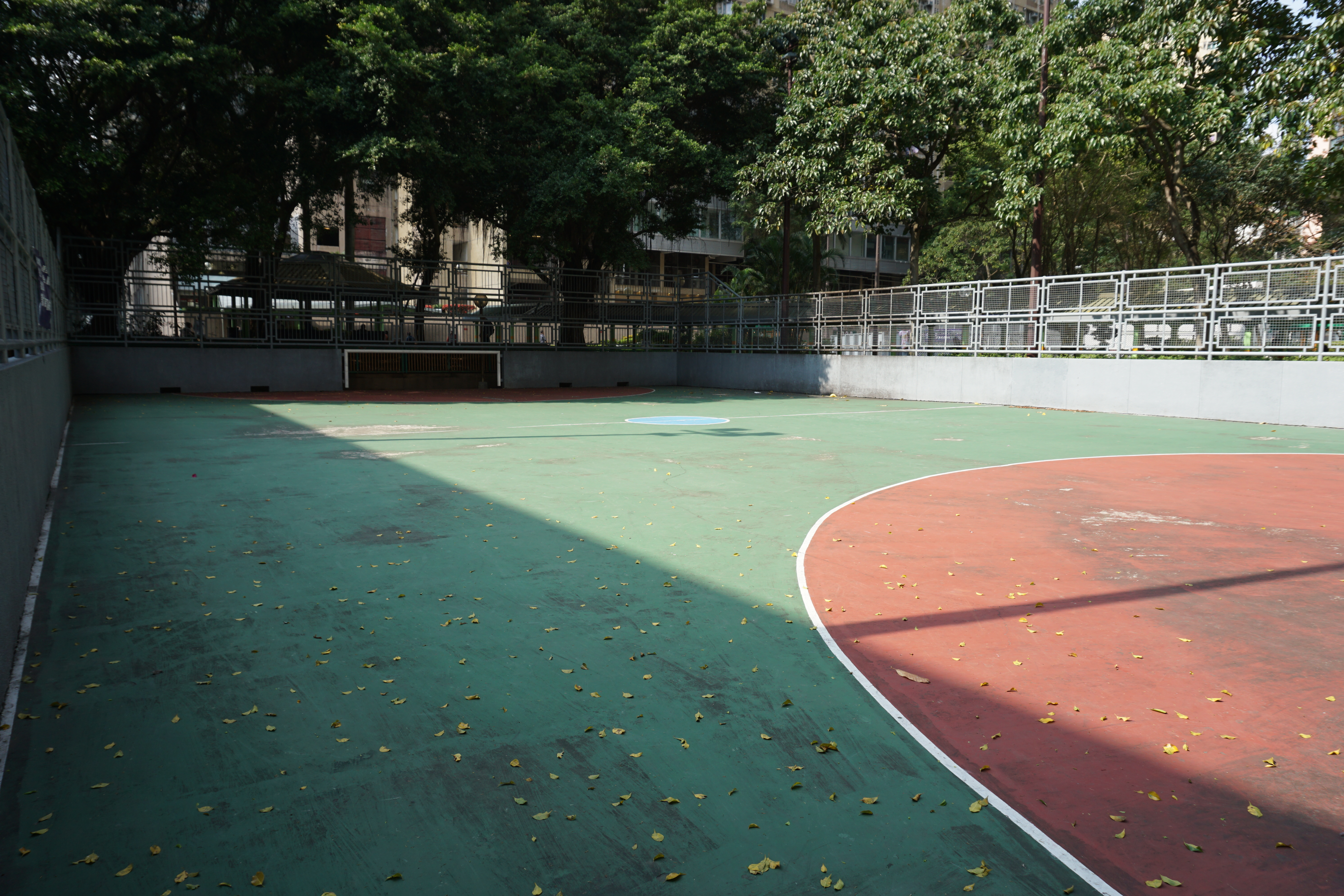 Tai Wo Estate in Tai Po, Hong Kong.